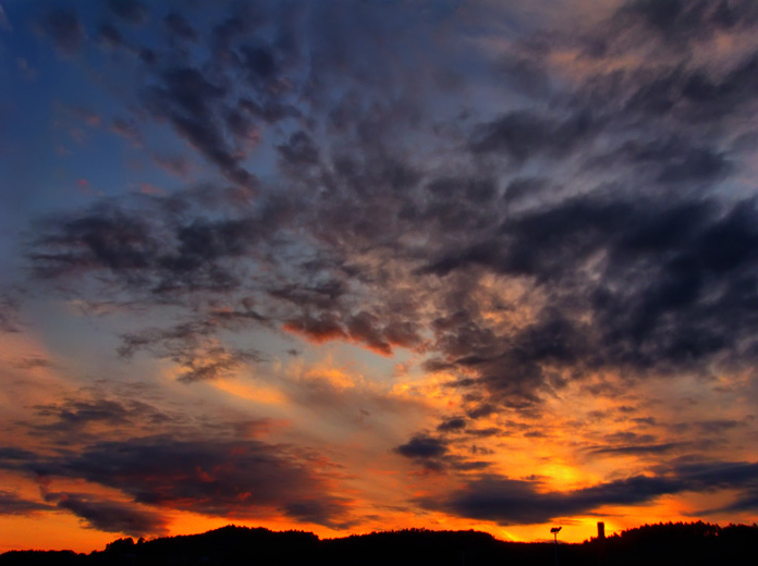 Dusk in Torrelavega (Cantabria, Spain)